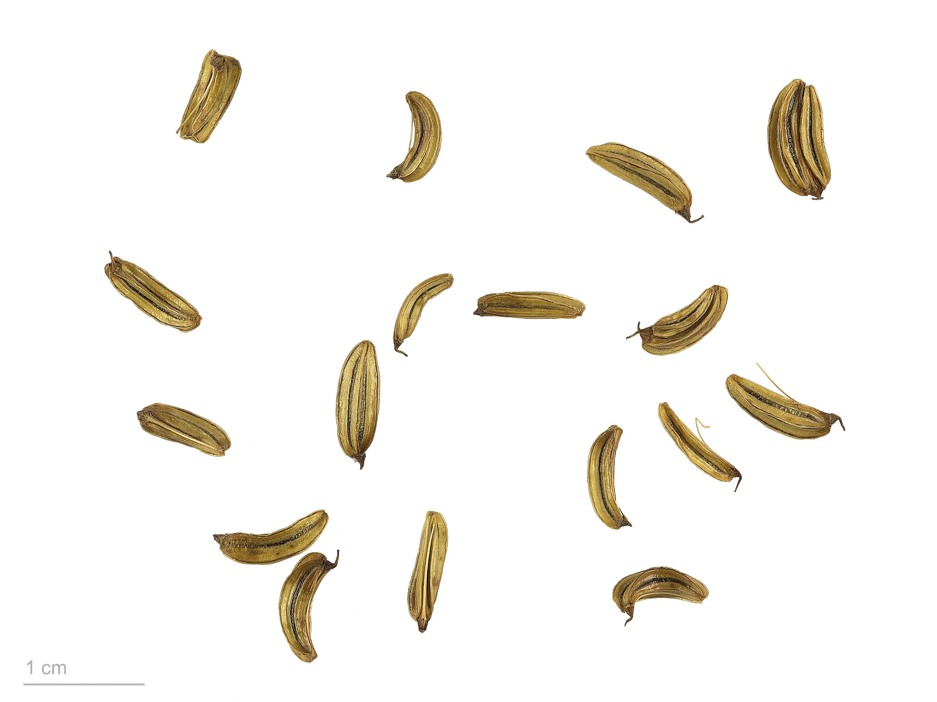 Molopospermum peloponnesiacum , fruits and seeds